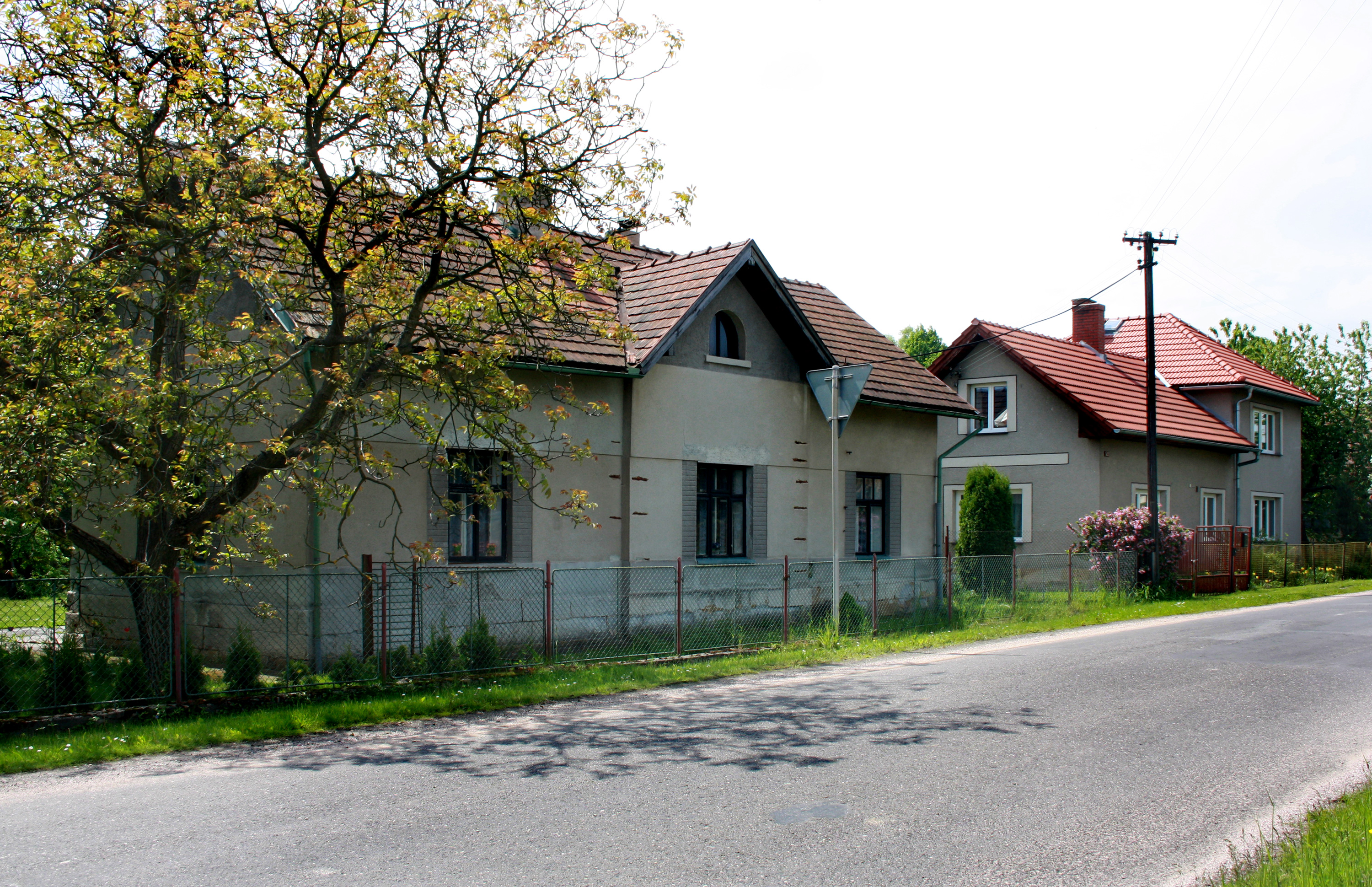 Ledkov, part of Kopidlno, Czech Republic